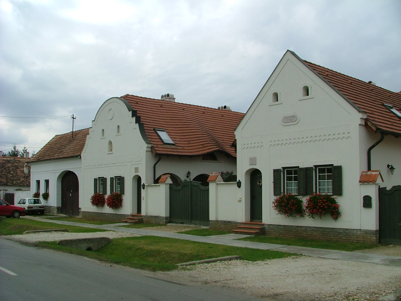 Renewed old peasant houses in Sarród